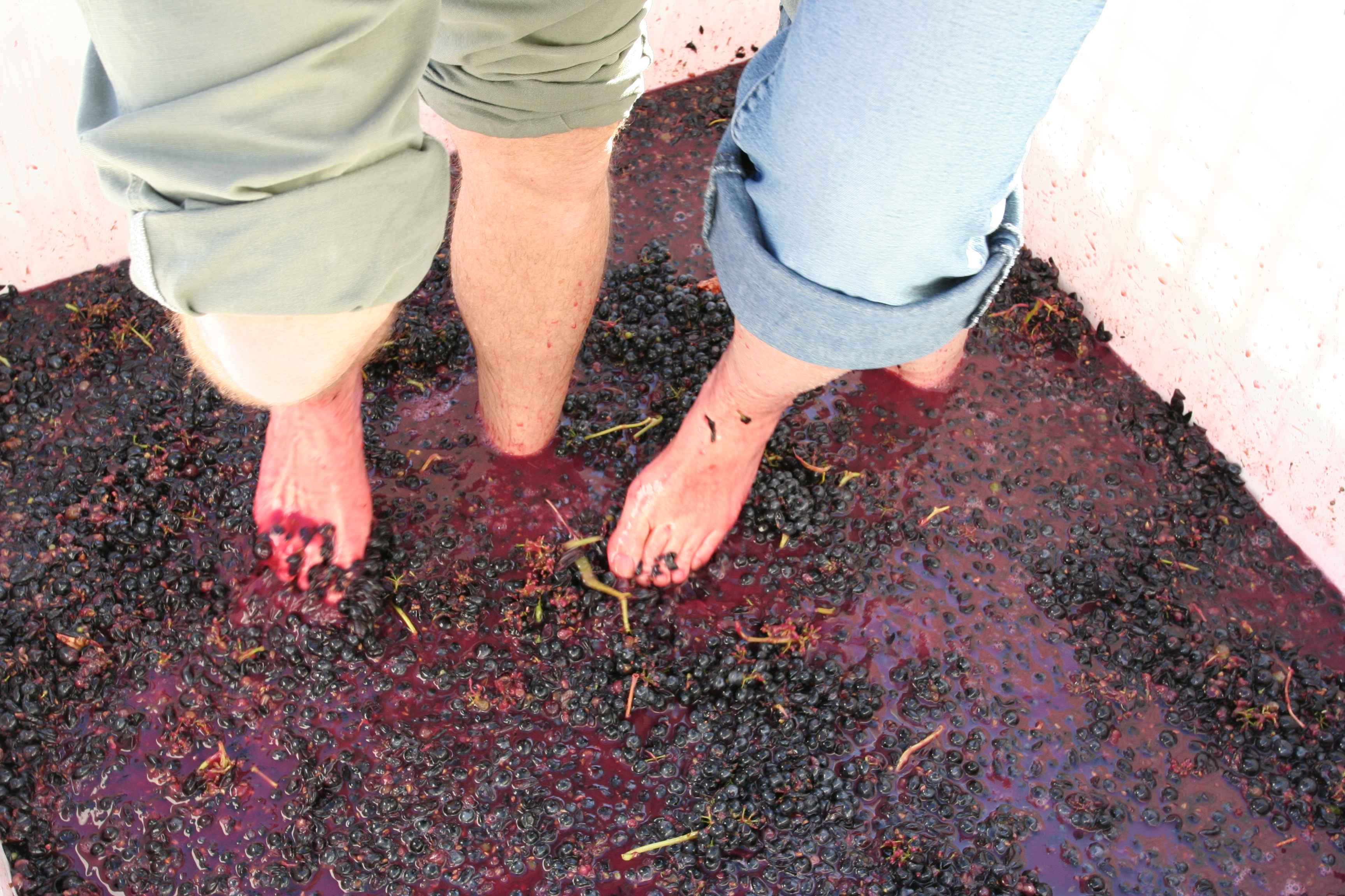 Stomping grapes to crush them as part of the winemaking process. Photo taken at Airfield Estates in Prosser, Washington.